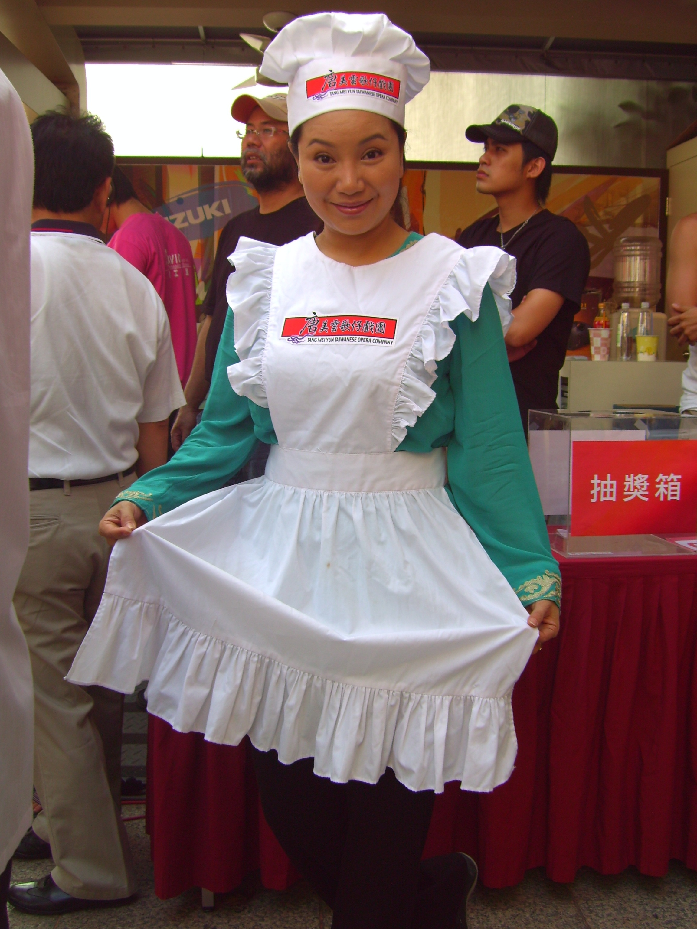 Meiyun Tang, founder of Tang Mei Yun Taiwanese Opera Company.